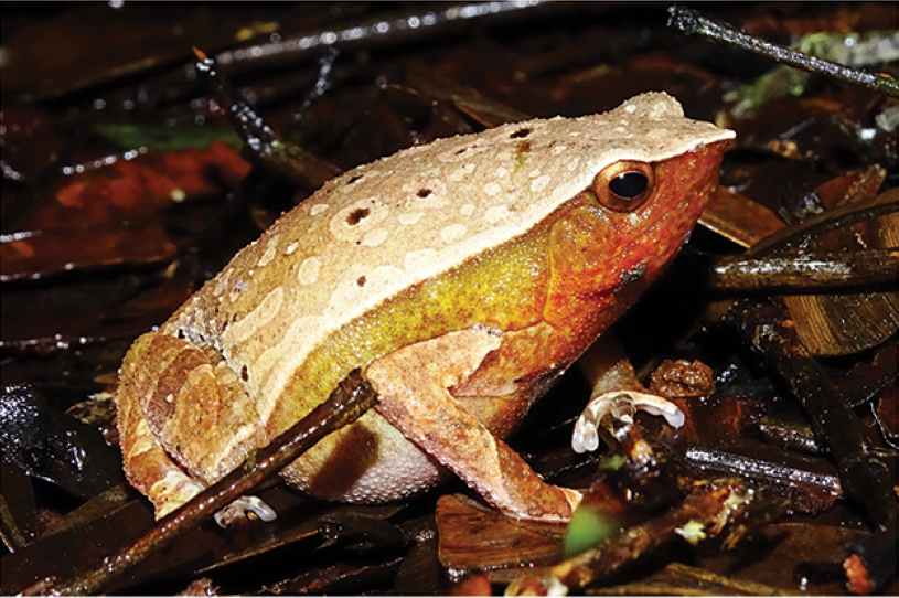 Figure 3; Kalophrynus meizon (photo voucher only)